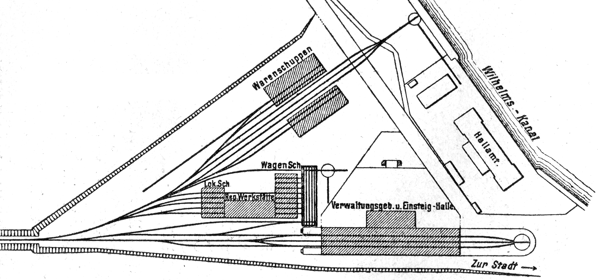 Station of Heilbronn as of 1848.